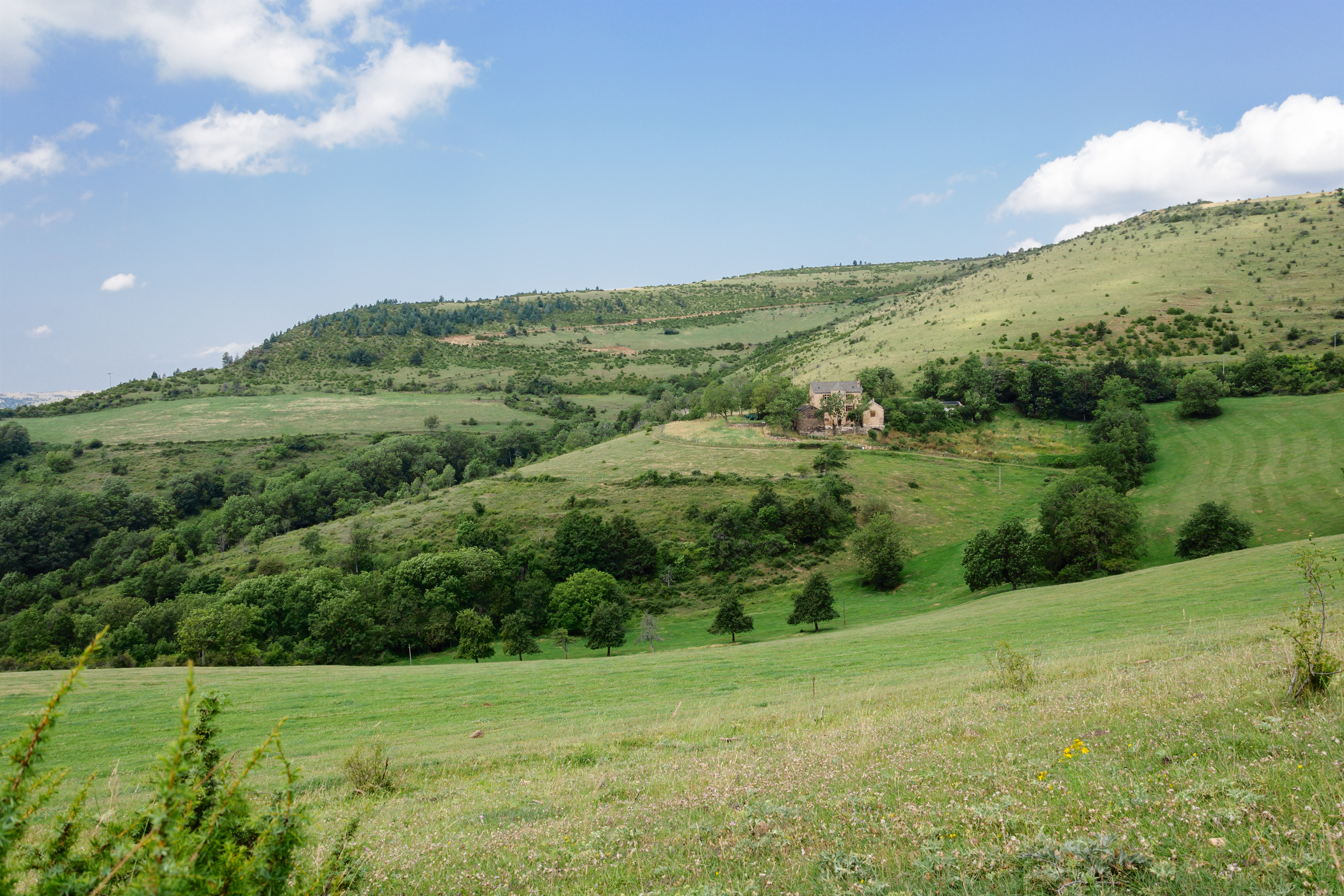 Overall view of the country estate of Issenges in Bédouès, Lozère, France .